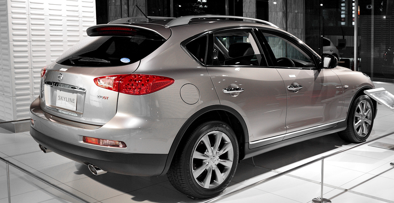 Nissan Skyline Crossover 370 GT